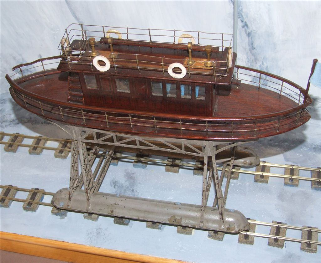 A proof of concept model of the Volks "Daddy long legs" built by Magnus Volk himself. The daddy long legs traveled along the railroad extending from Brighton Chain Pier to Rottingdean. The photo was taken at the Brighton Toy and Model Museum in Brighton.